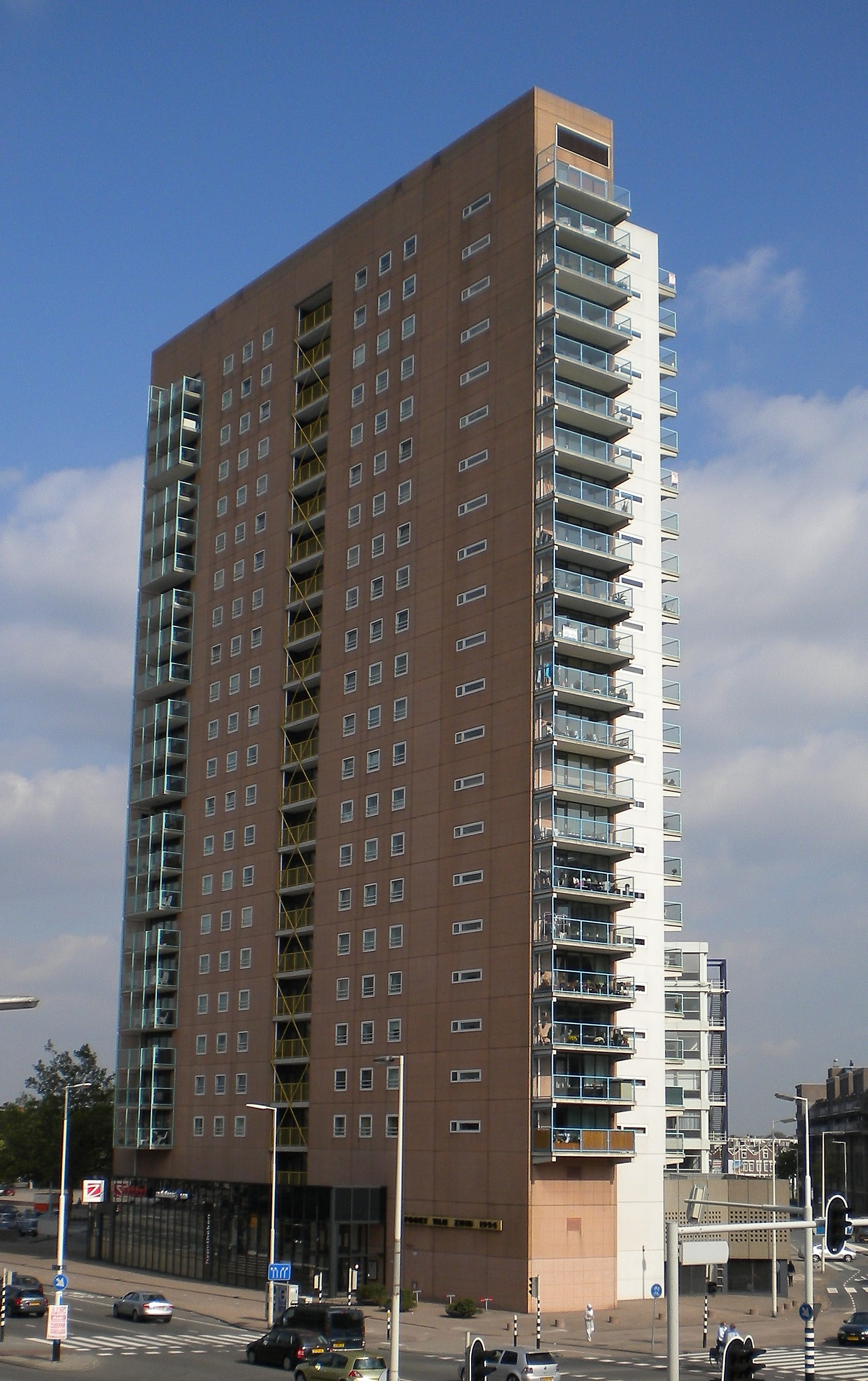 Poort van Zuid 1994 - Rotterdam - The Netherlands